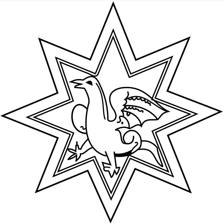 Heraldic symbol of Princess Helen of Sweden (born about 1191, married to Sonny Folkesson), a daughter of King Sweartgar II of Sweden, the only known heraldic symbol of the Sweartgarian DynastyPlace: Sweden